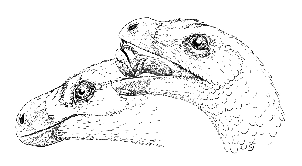 Restoration of head of Incisivosaurus gauthieri